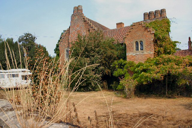 Bardwell Hall. This 16th century building is near-derelict, but is currently being restored.